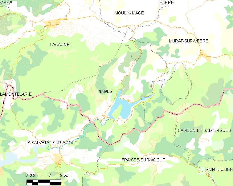 Map commune FR insee code 81193.png - Nages